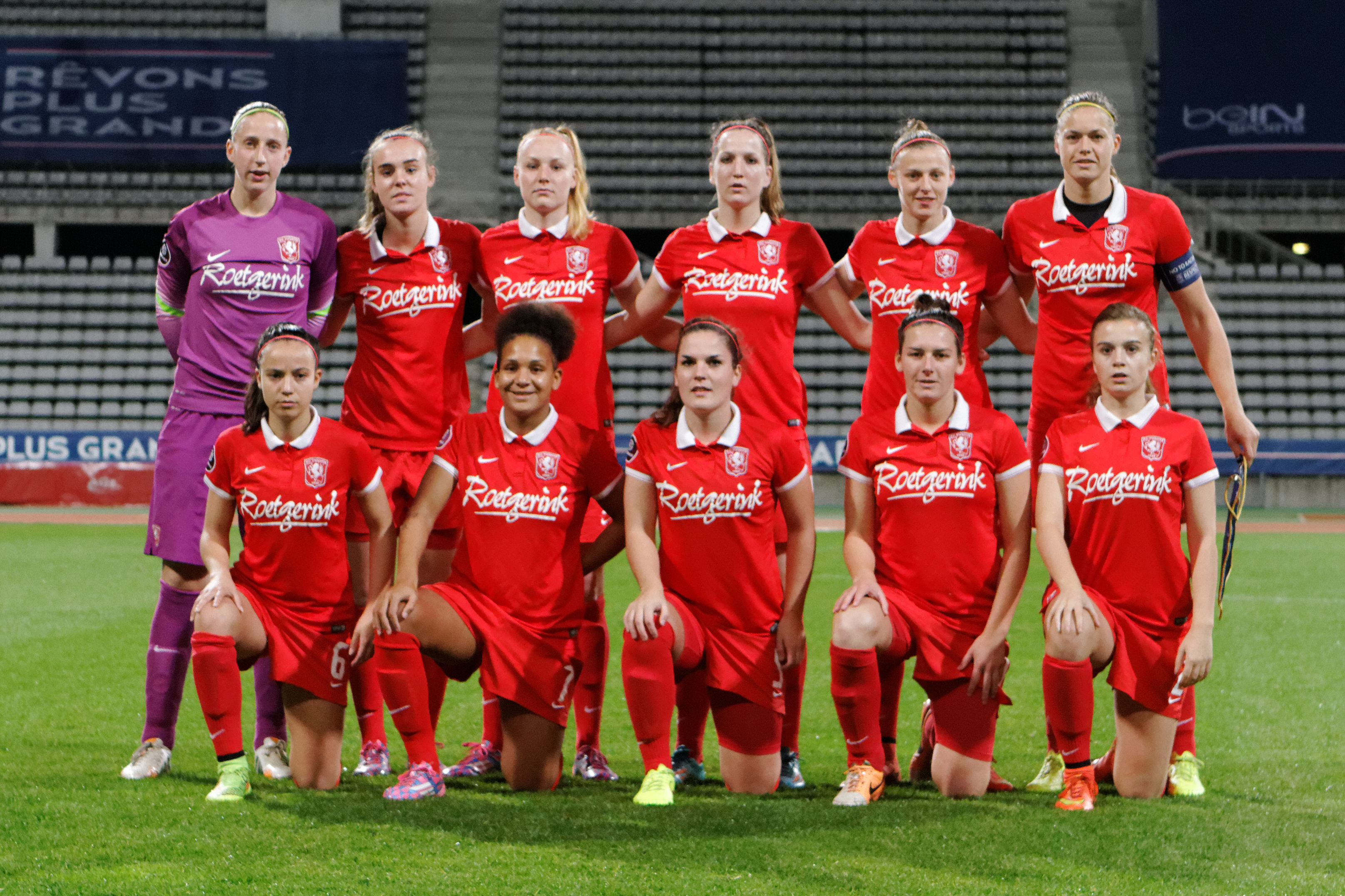 UEFA Women's Champions League, PSG - Twente, 15 October 2014